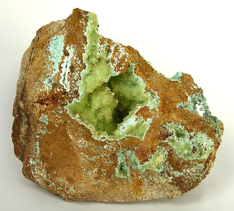 Senegalite Locality: Mount Kourou Diakouma (Kouroudiako), Saraya, Falémé River basin, Tambacounda Region, Senegal (Locality at ) Size: 8.1 x 6.3 x 4.2 cm. A beautiful crystalline carpet of senegalite lines pockets of turquoise, on this classic specimen form the type locality.